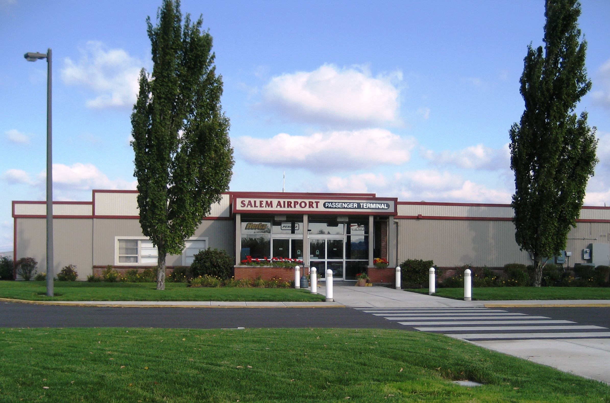 McNary Field airport terminal in Salem, Oregon, USA